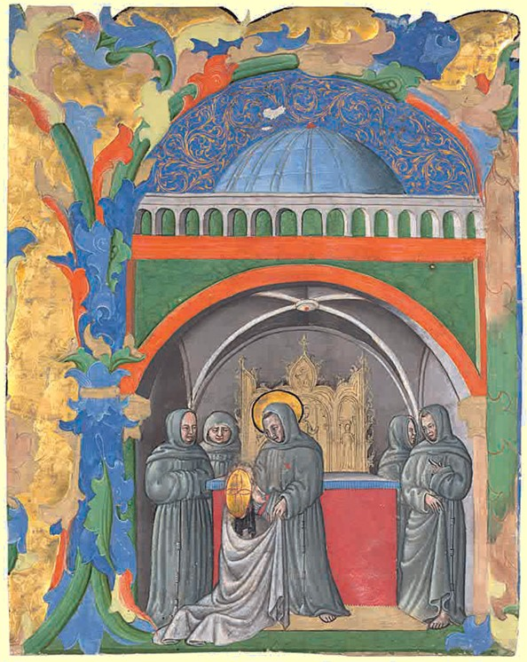 Clare of Assisi is received into the order of the minorites by St. Francis